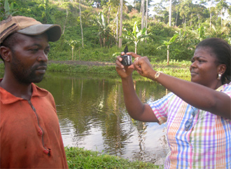 Mobile Reporting - African journalist using a mobile phone as a reporting tool. The ability to capture text, photo and video . The content receives some editing on the phone before being uploaded to the Internet via GPRS.